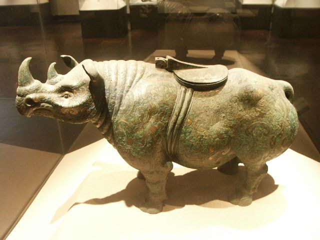 A Chinese Western Han Dynasty (202 BC – 9 AD) bronze rhinoceros with gold and silver inlay.